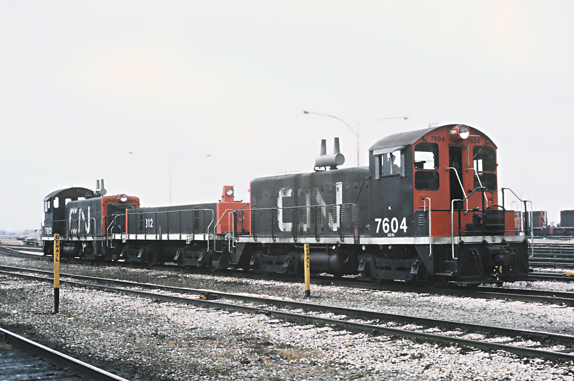 hump engines A Roger Puta Photograph